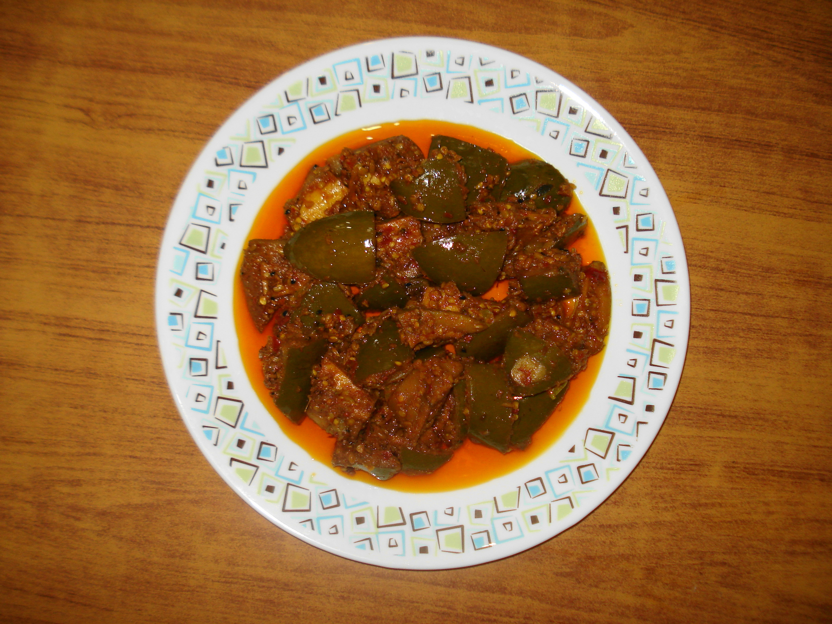 Ghar Jesa Aam Ka Achar